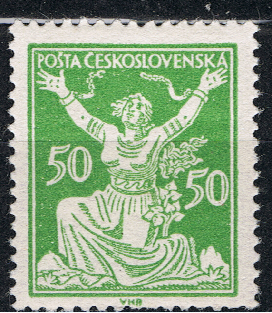 Czechoslovak postage stamp, 1920/1922, Mi. 175